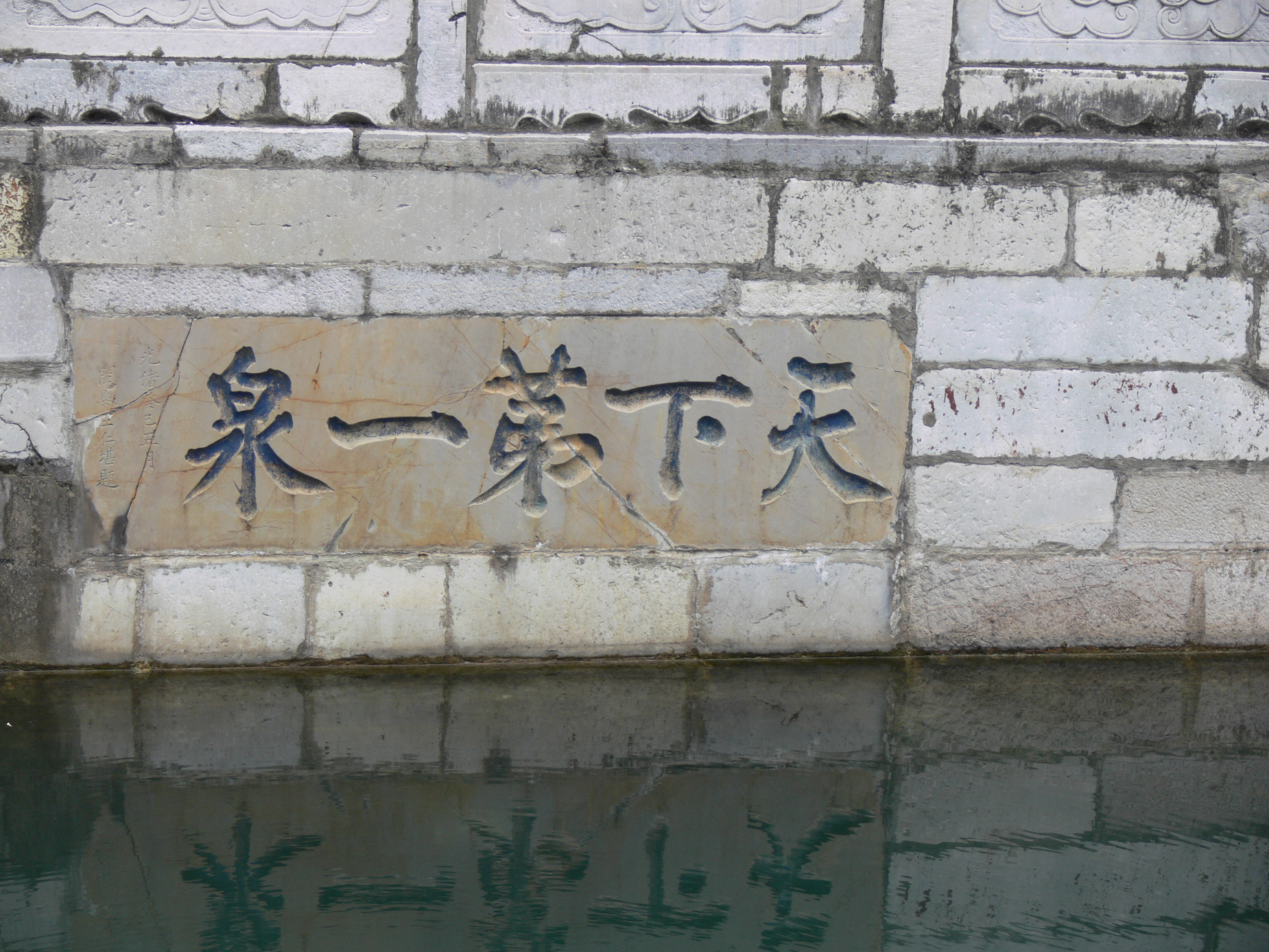 No 1 Spring in Jinshan temple of Zhenjiang